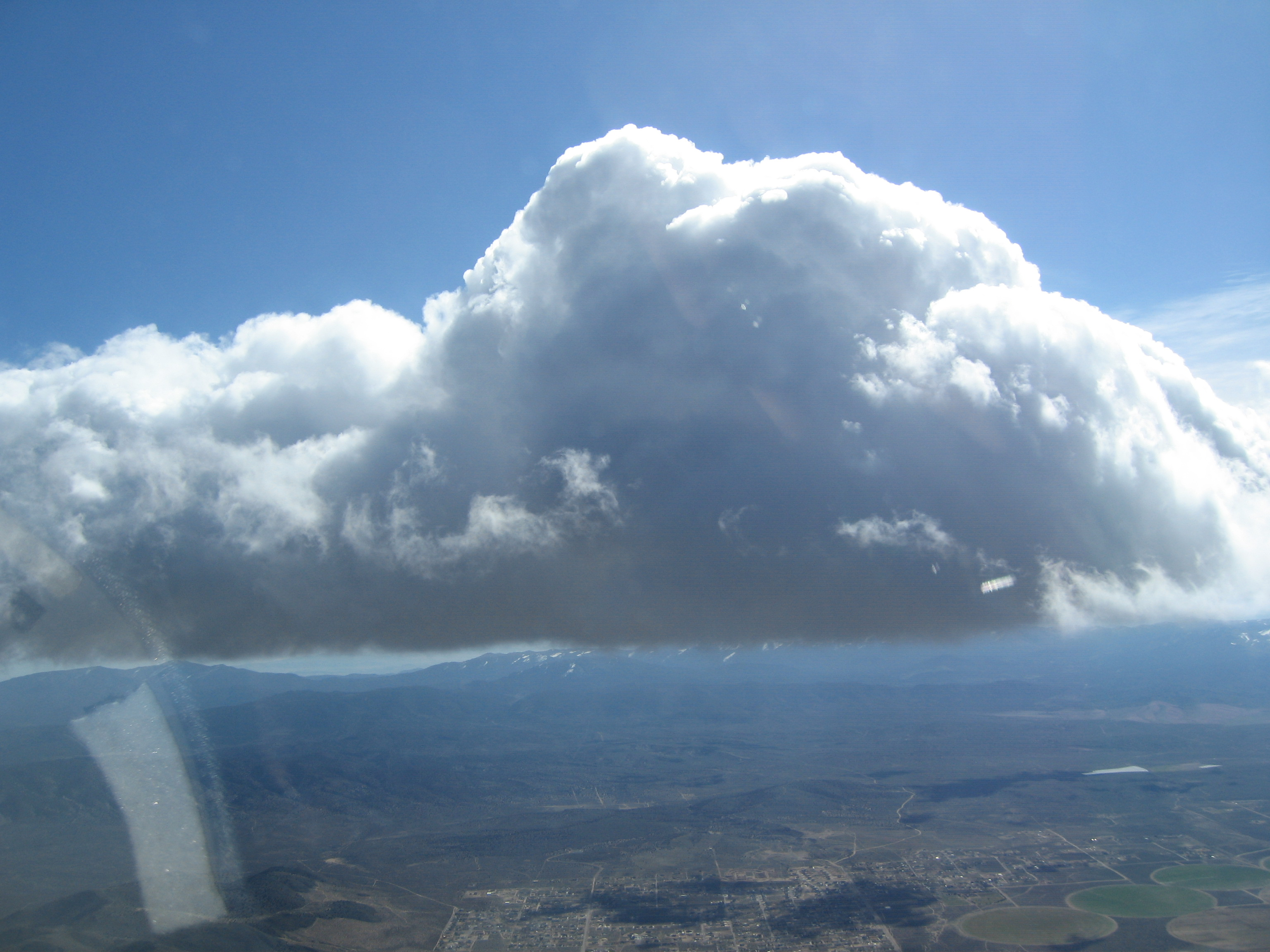 Rotor cloud over Carson Valley, Nevada, USA.